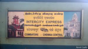 intercity